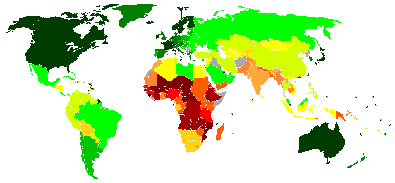 Countries fall into three broad categories based on their HDI: high, medium, and low human development. The arrows show the change in HDI from 2005 values. The 2007/2008 edition of the Human Development Report was published on November 27, 2007; in Brasília, Brazil. [1] {1 }